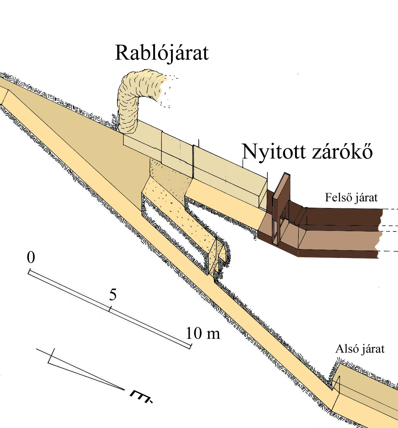 Passage joint under Khafre's pyramid - with Hungarian labels